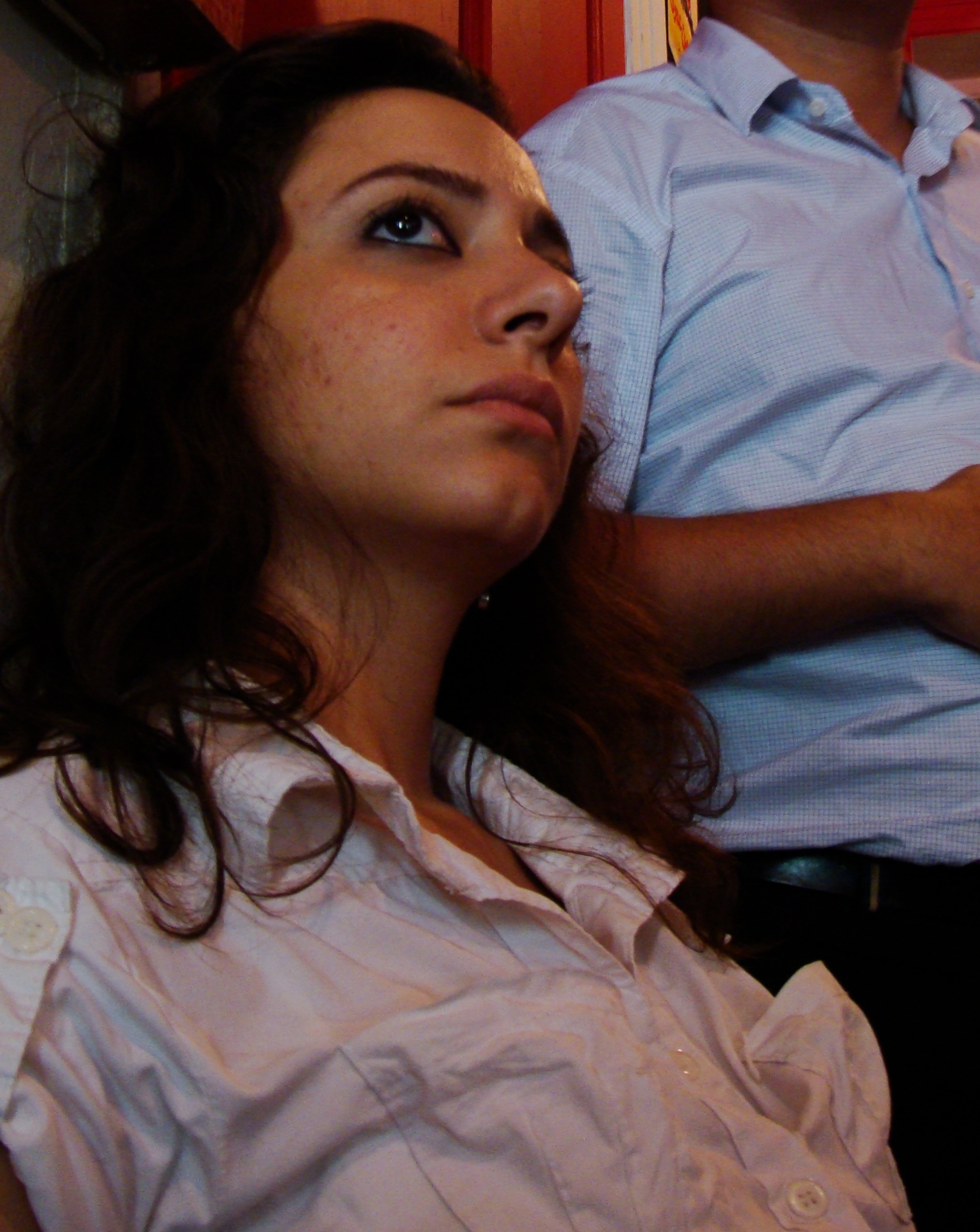 Syrian activist Razan Ghazzawi during a conference in Beirut.